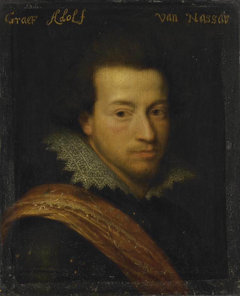 Portrait of Adolf, Count of Nassau-Siegen. Bust, facing right, in armor. Part of the Leeuwarden series, a series of portraits of military officials from the Eighty Years' War as well as members of the House of Orange-Nassau, first documented in 1633 in the Stadhouderlijk Hof (Stadholder's Court) in Leeuwarden (see Object history).